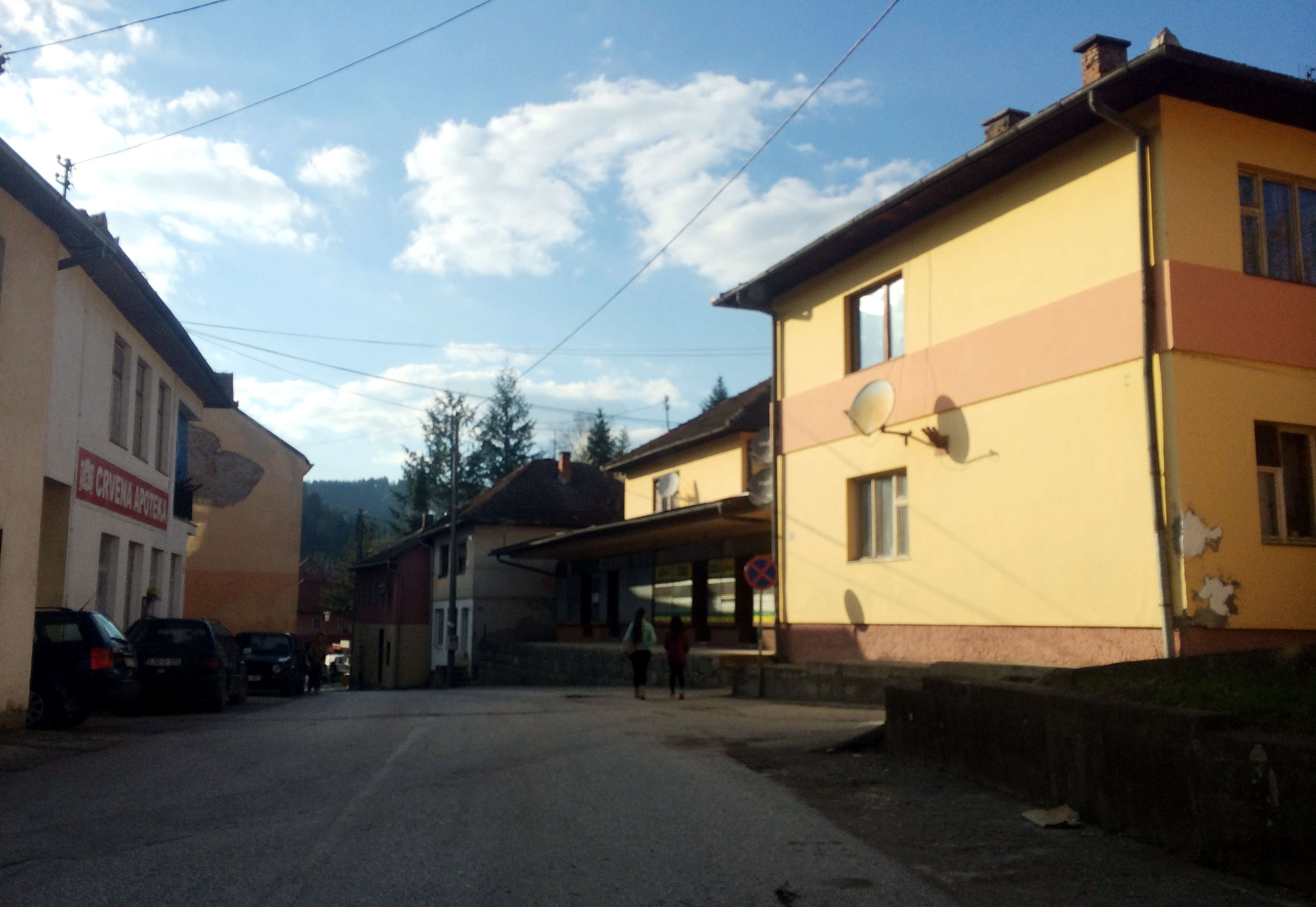 Image from the border city of Rudo, center of Rudo municipality in southeastern Bosnia-Hercegovina. The city has both a mosque and an orthodox church, and a bridge across the Lim spanning from Serbia into Bosnia at Rudo.